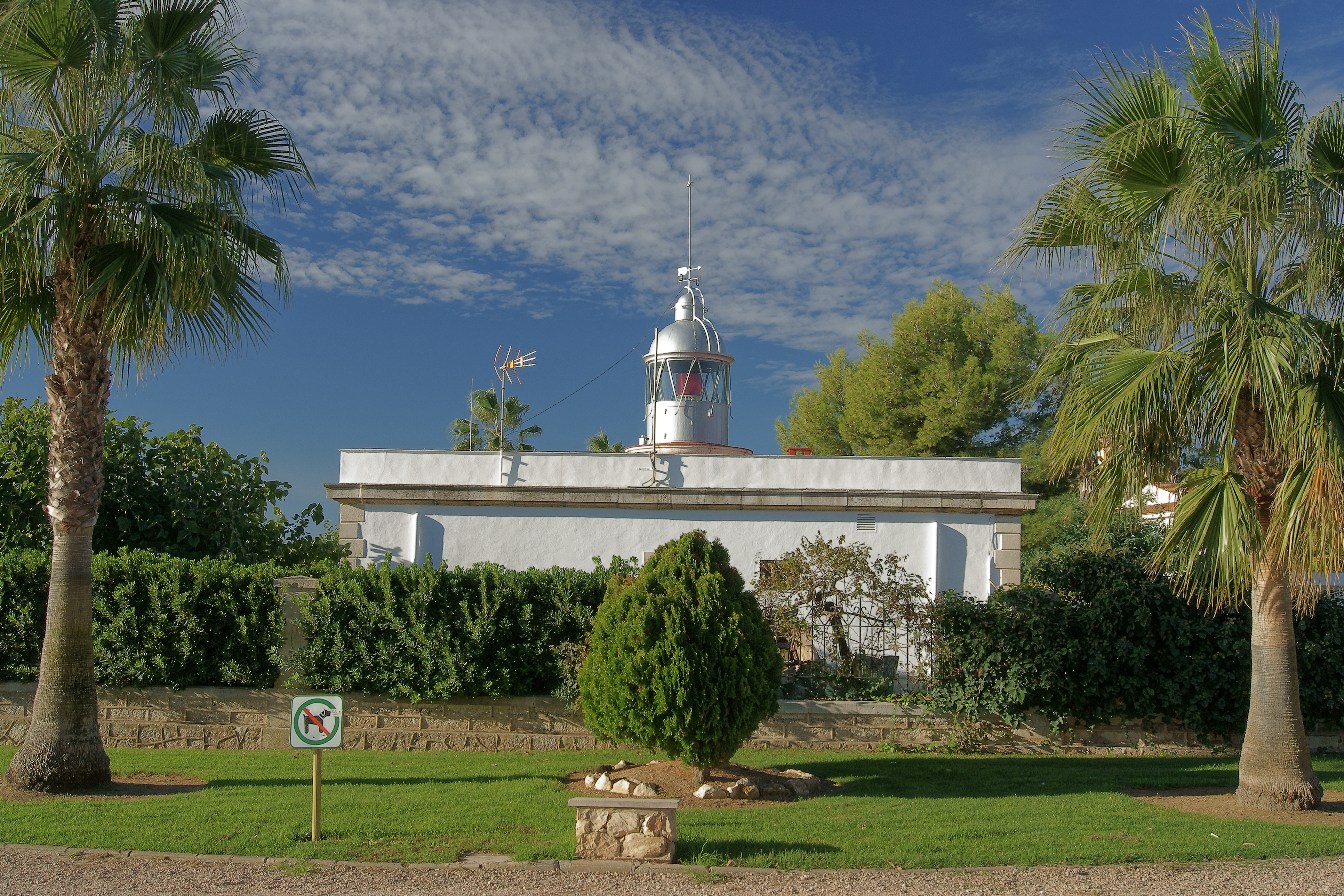 Red light lighthouse, located in one of the extremes of the Los Alfaques bay, in Ebro Delta. San Carlos de la Rápita, Tarragona, Spain